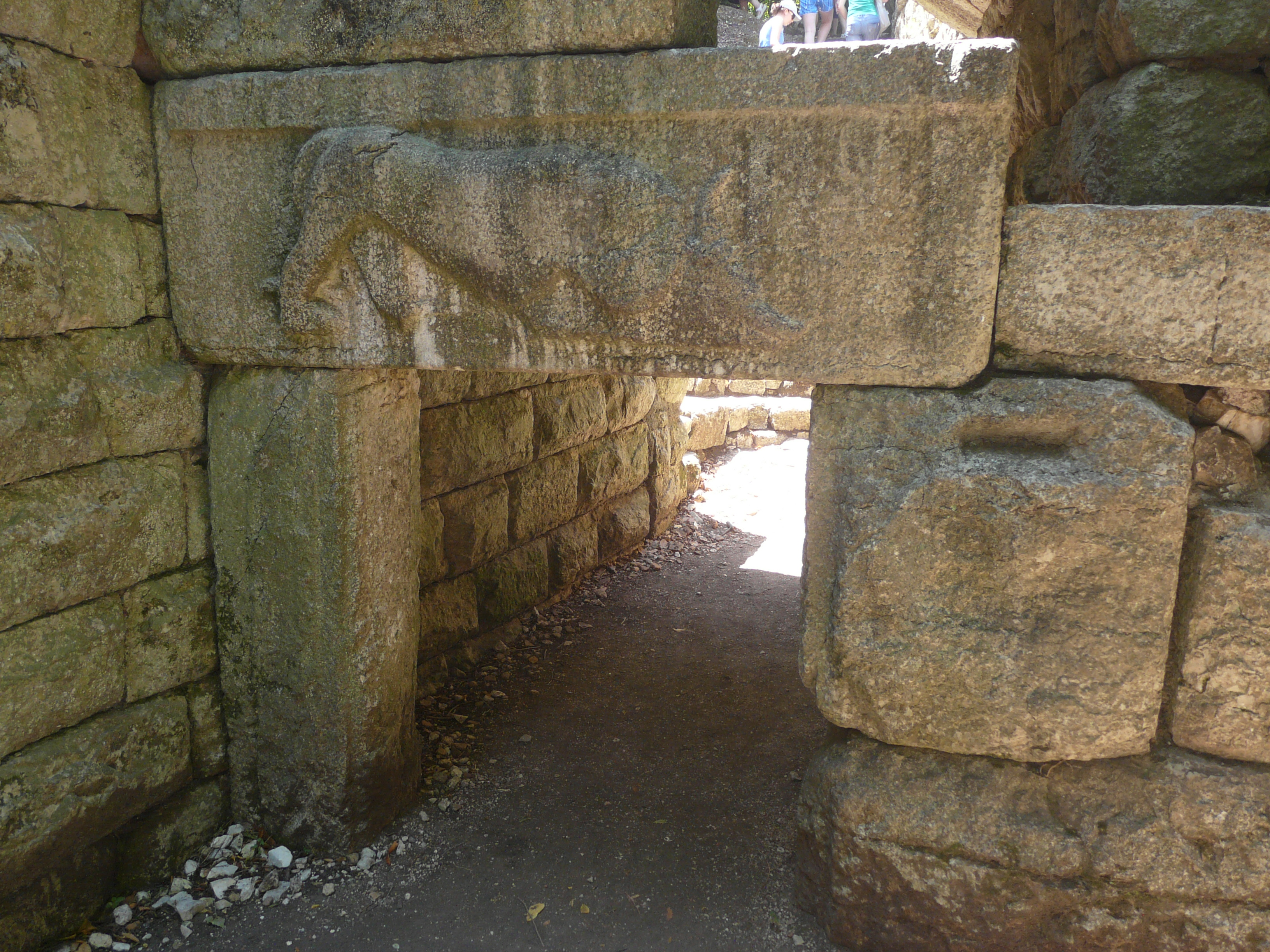 Butrint, Albania: The Lion Gate of the city wall